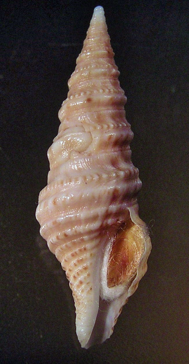 Turris ruthae Kilburn, 1983 , a turrid snail form the family Turridae; South Africa